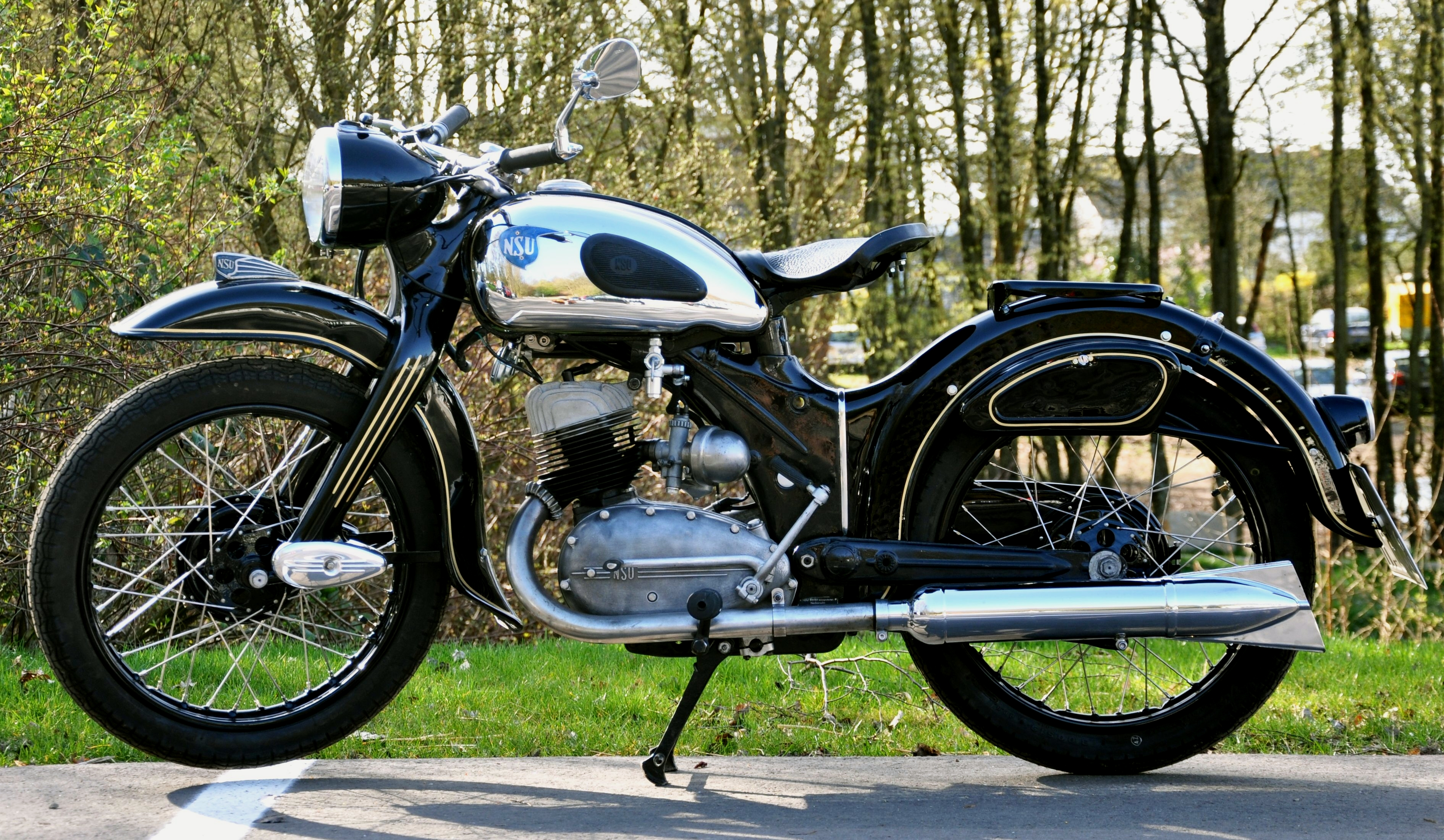 NSU Lux, built 1952